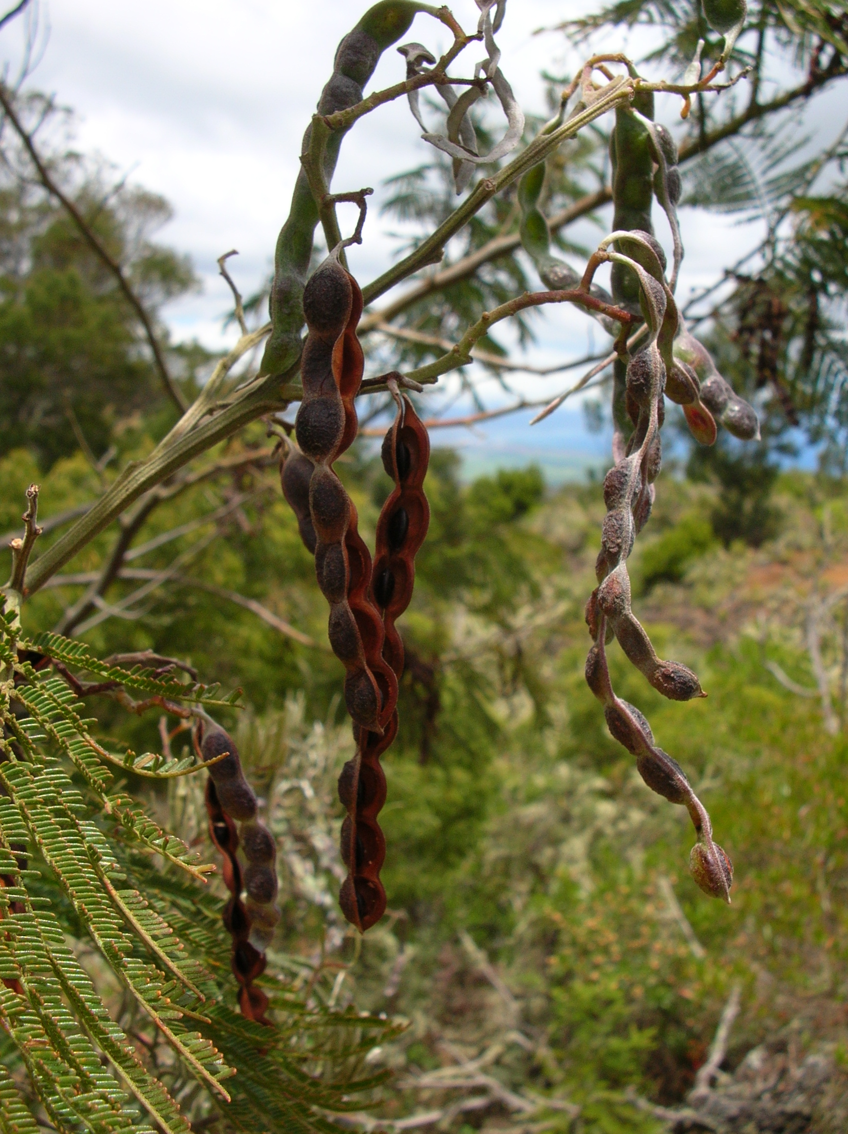 Acacia mearnsii (seedpods). Location: Maui, Waiale Gulch